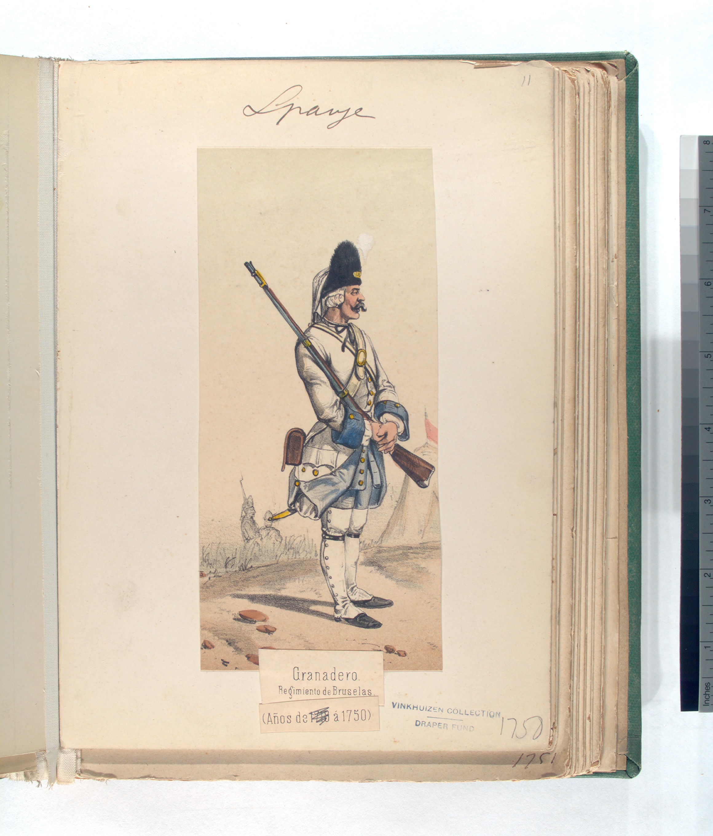 The Draper Fund